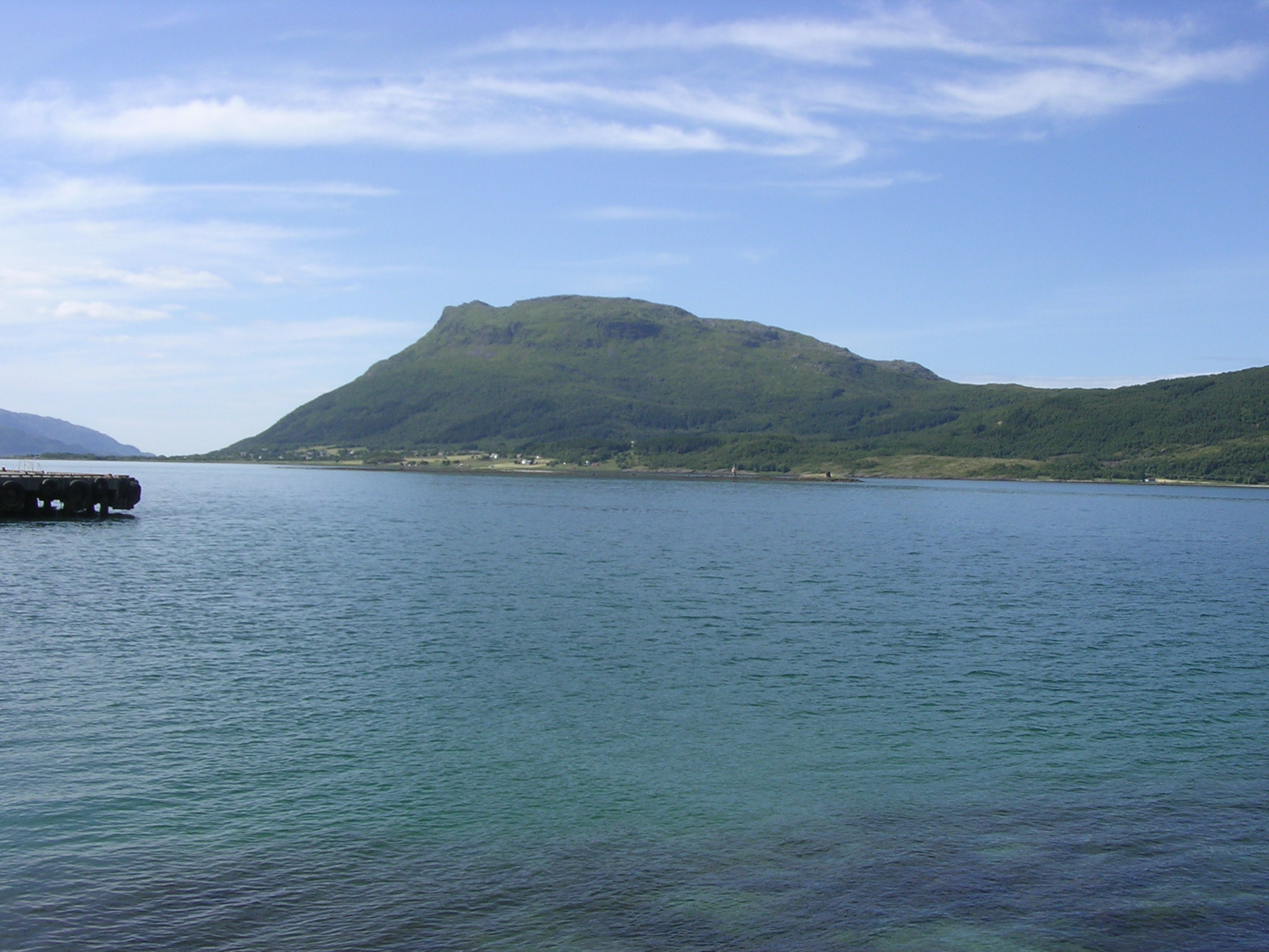 Island Hugla island in Nesna municipality, Nordland, Norway. Southern part of the island viewed from Nesna.